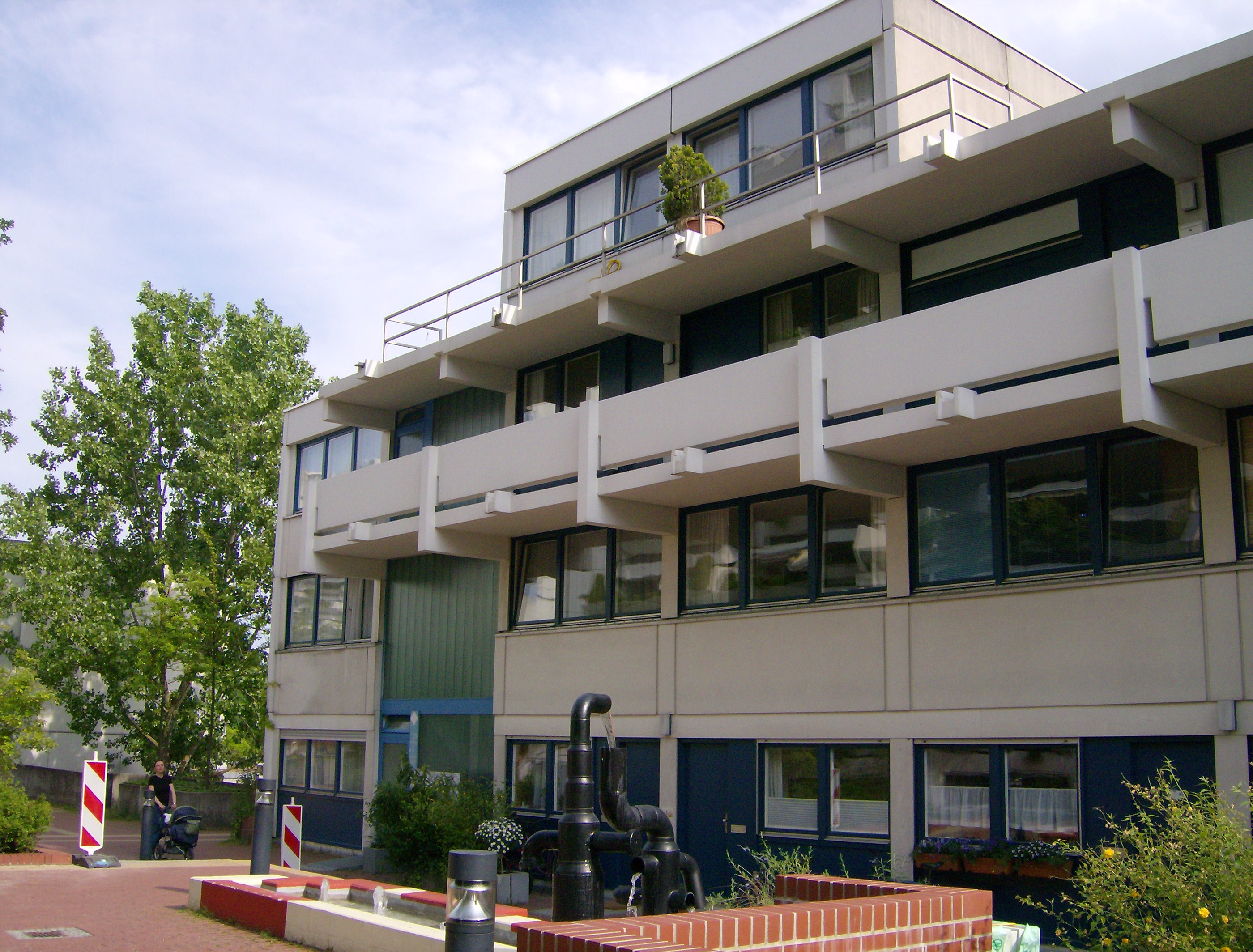 Front view of the Israeli apartment at the 1972 Olympic Games in Munich, where the athletes were held hostage during the Munich massacre.